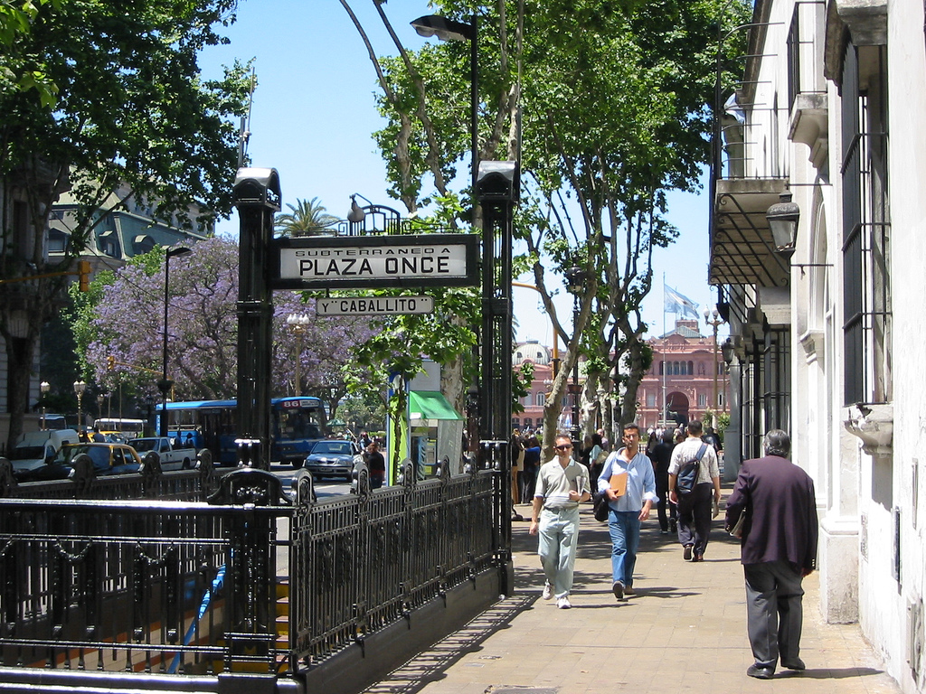 Entrance to Peru undergroudn station (Line A) of the Buenos Aires Metro